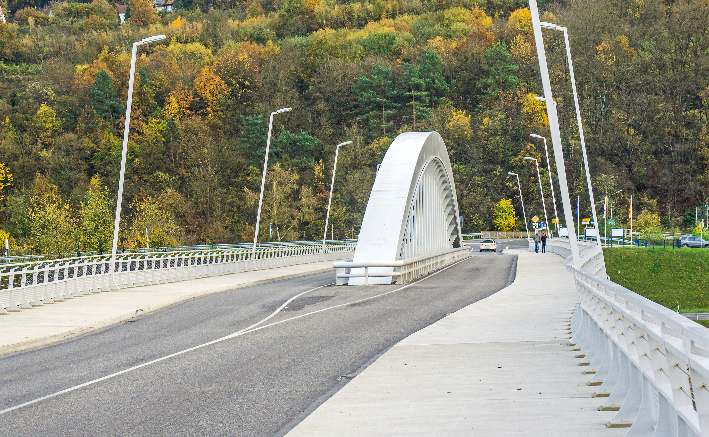 New bridge over the moselle river in Grevenmacher - Wellen